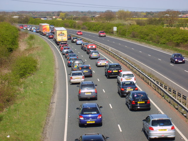 Traffic Jam Heavy Saturday traffic heading towards York - Probably going to Monk's Cross Shopping Centre. Image taken from the Bad Bargain Lane flyover which crosses the A64.